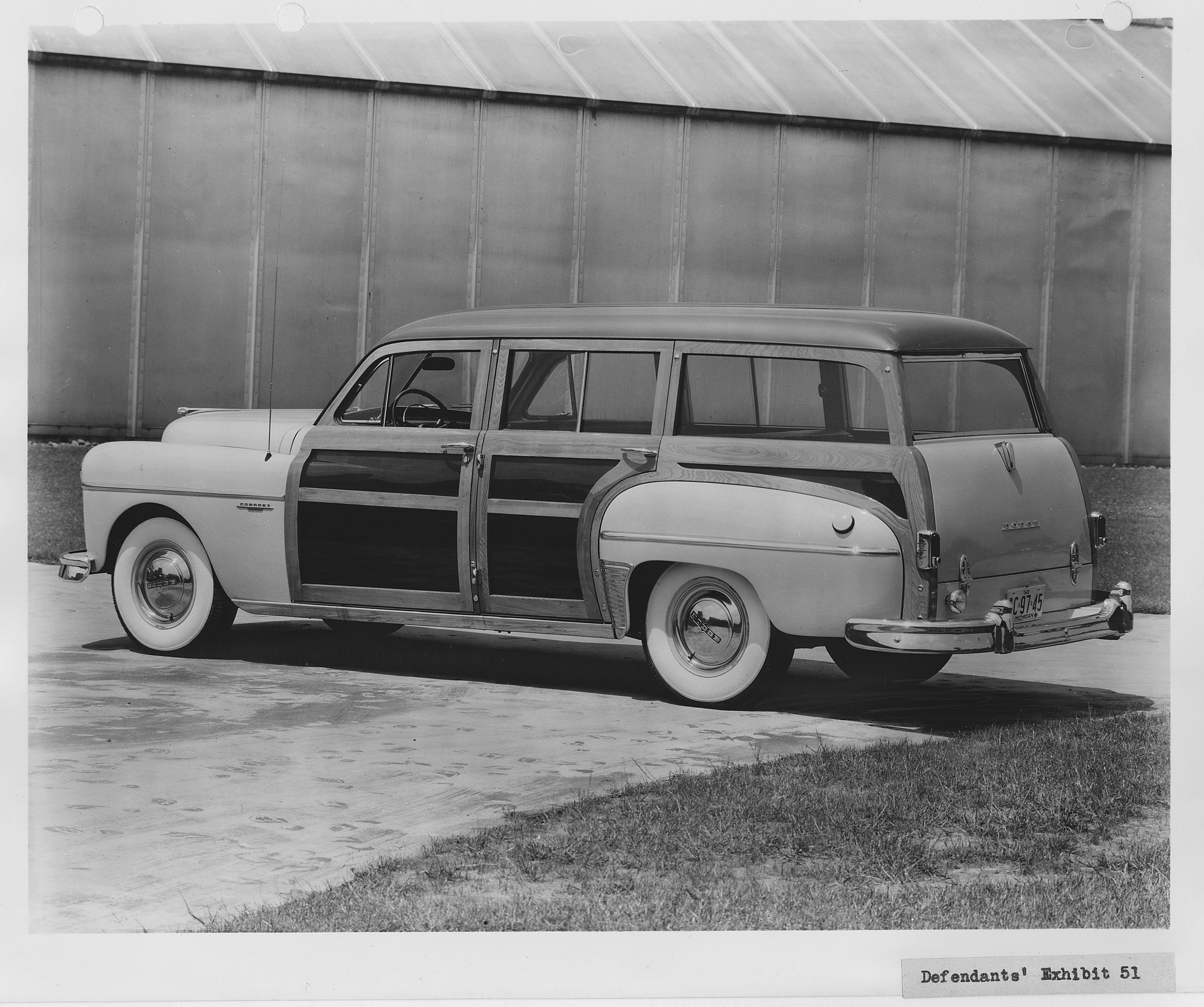 Scope and content: Photographs of new vehicles taken from a variety of perspectives. There are occasional close-ups of grilles.